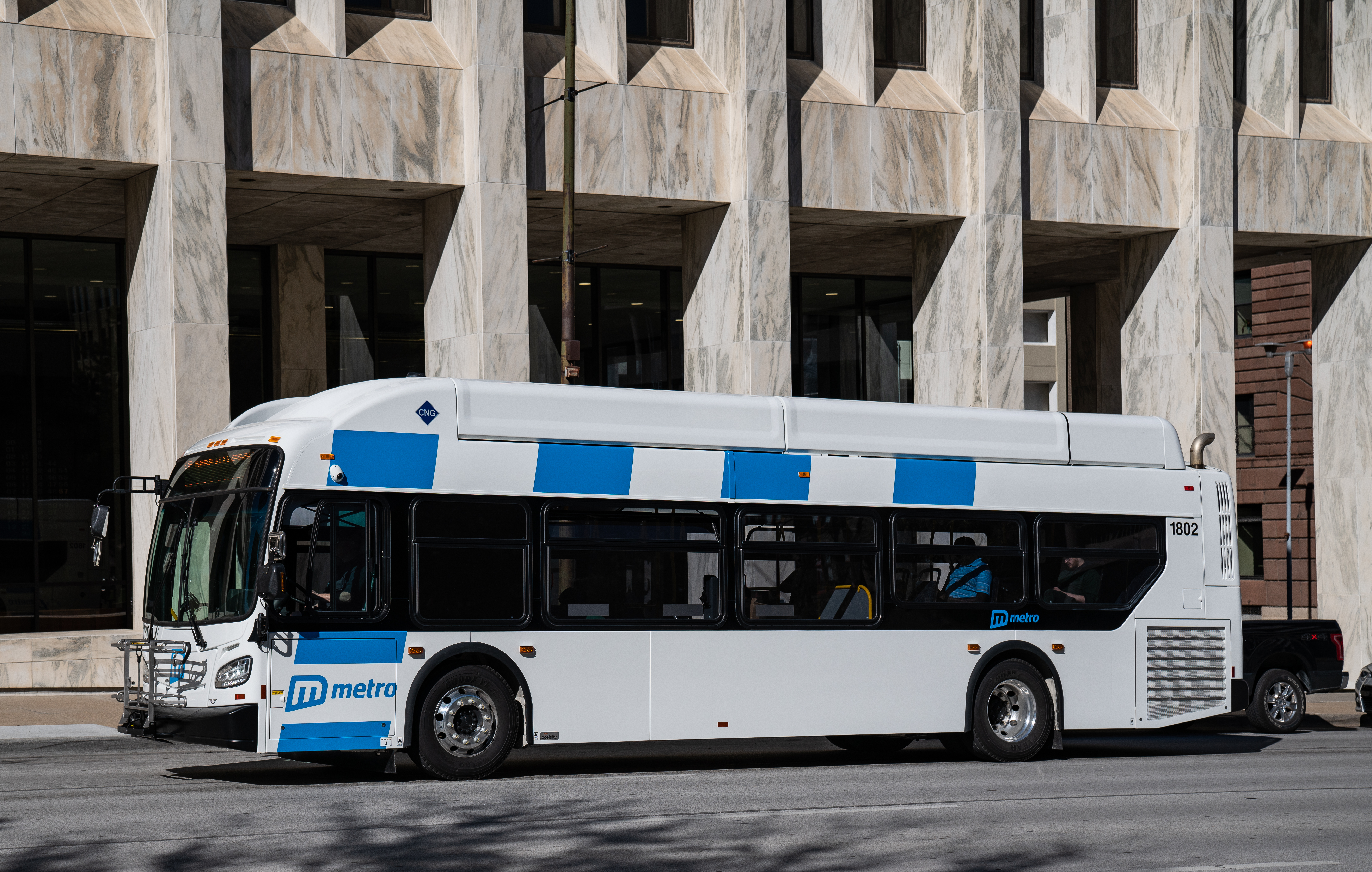 An Omaha Metro Transit bus in front of Woodmen Tower in downtown Omaha, Nebraska. Bus No. 1802 is a 2018 New Flyer XN35, a 35-foot-long CNG (compressed natural gas) bus.